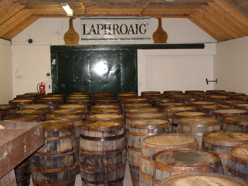 Single Malt Scotch in bond at the Laphroaig distillery on Islay in Scotland.